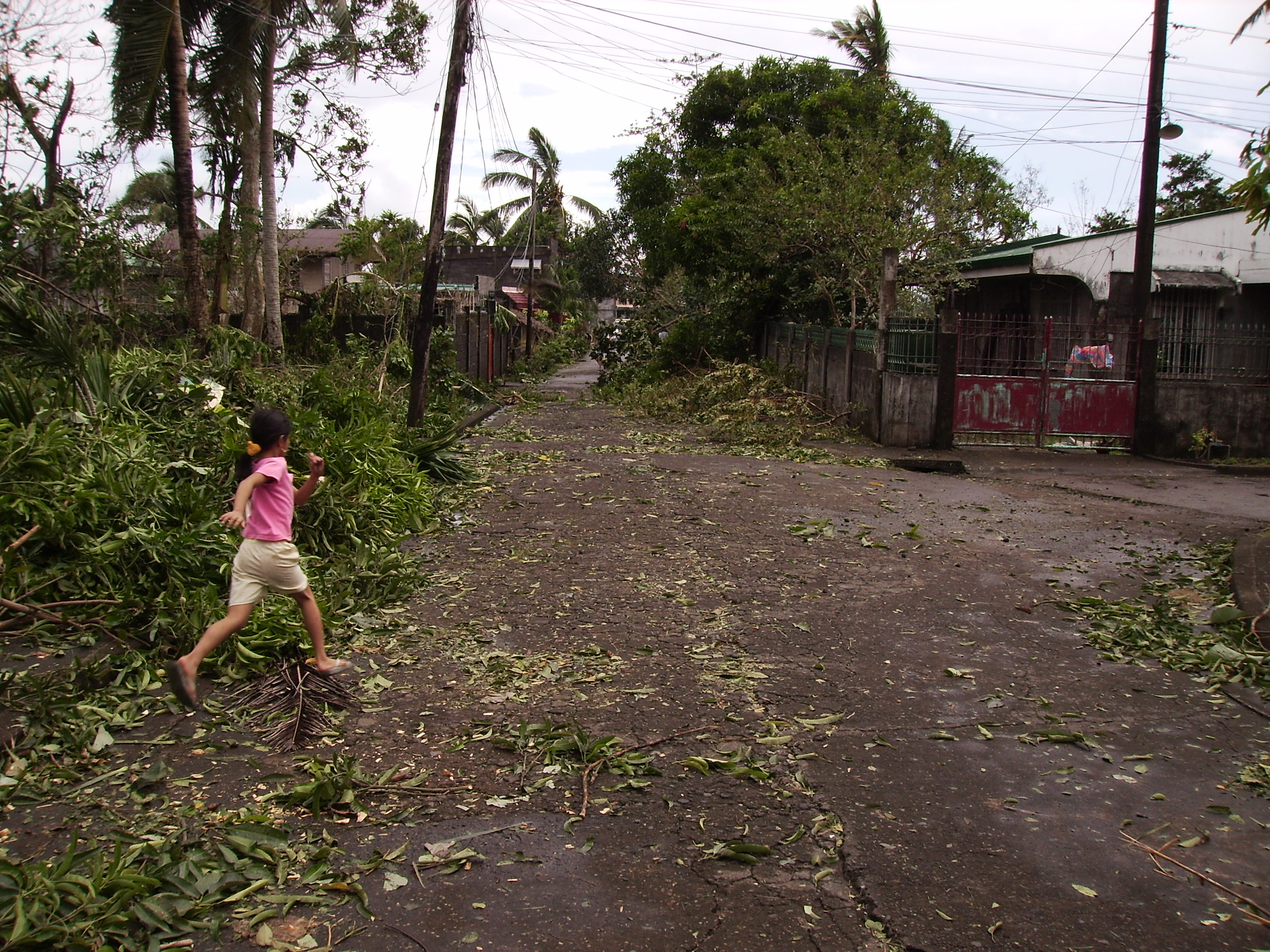 A typical street in Tabaco City, Philippines showing the aftermath of Typhoon Milenyo R.christou 15:22, 15 October 2006 (UTC)